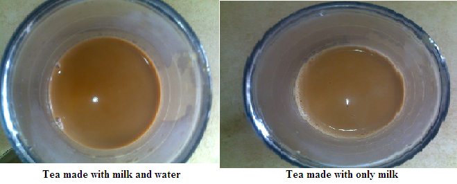 Difference between tea made with milk and water and with only milk